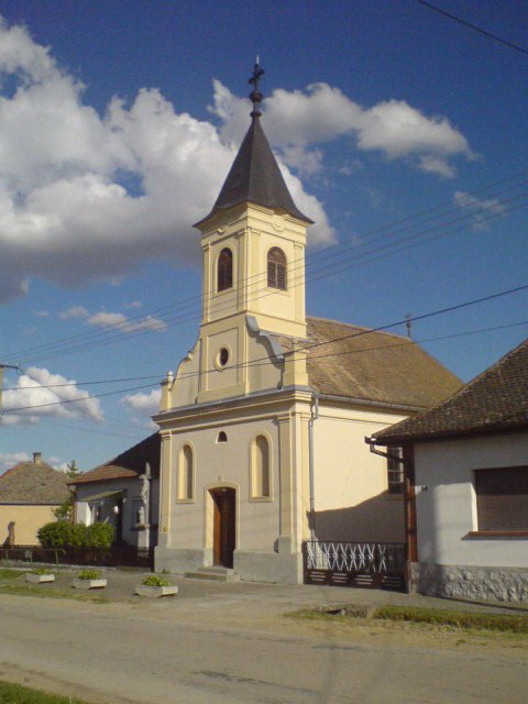 Roman catholic church in Márok, Hungary